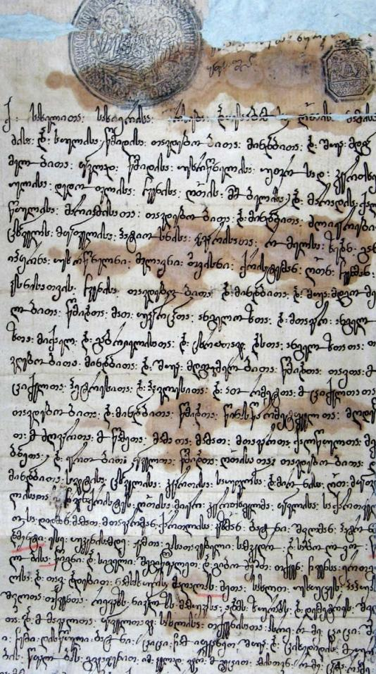 Charter of King George XI of Kartli